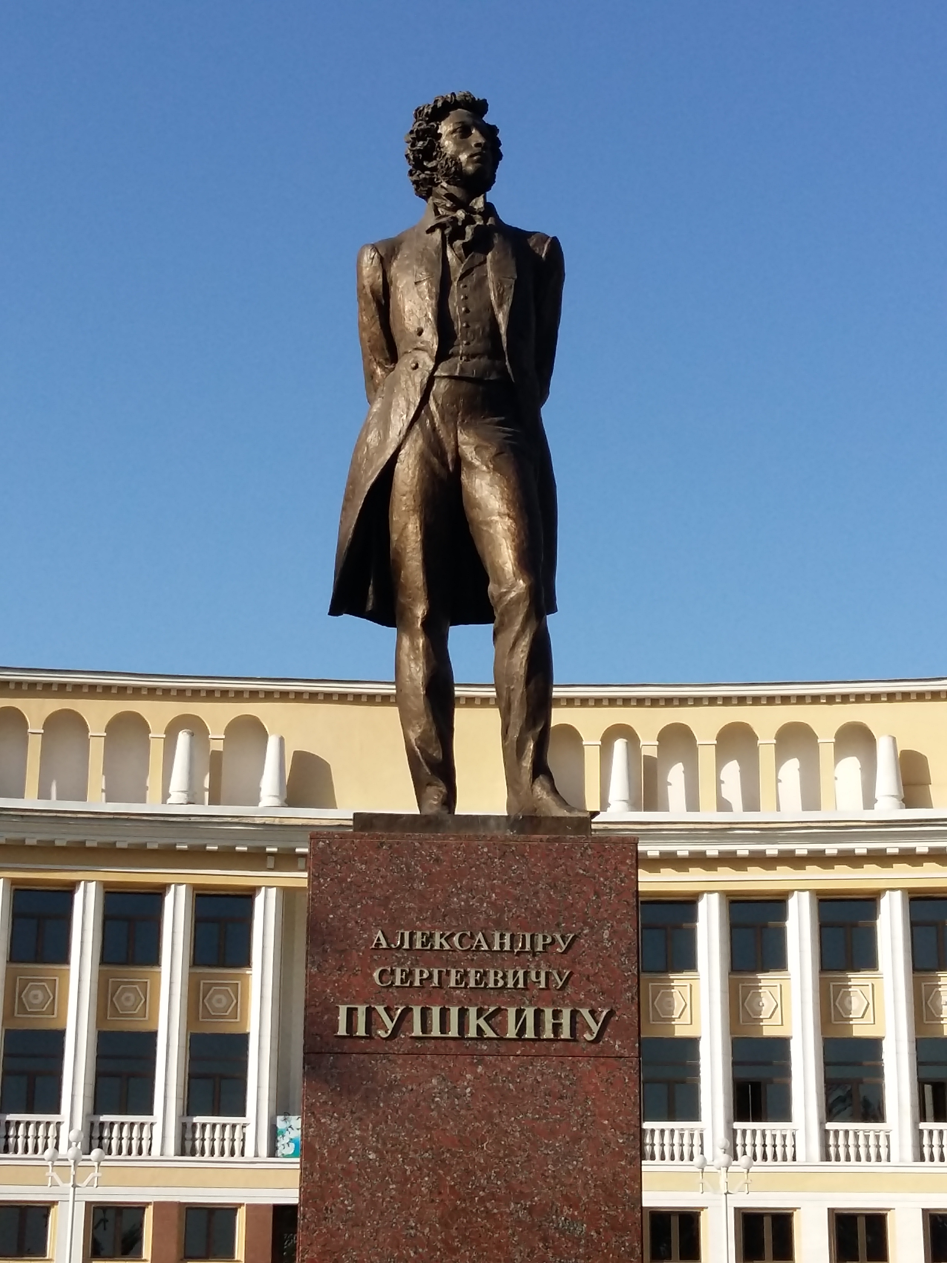 Monument of Alexandr Serggevich Pushkin in Tashkent